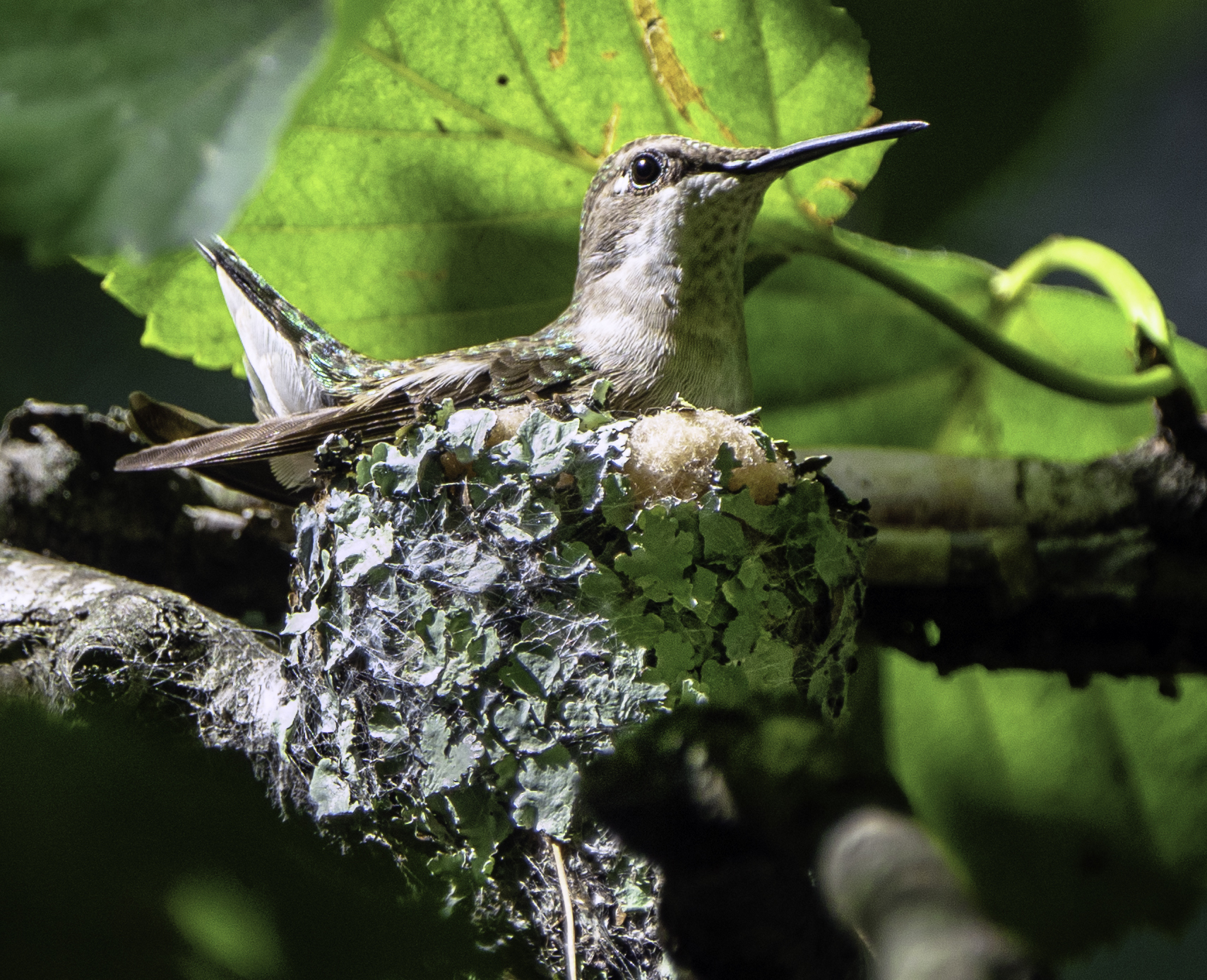 A female Ruby-throated hummingbird in the process of nest building in Aitkin, Minnesota